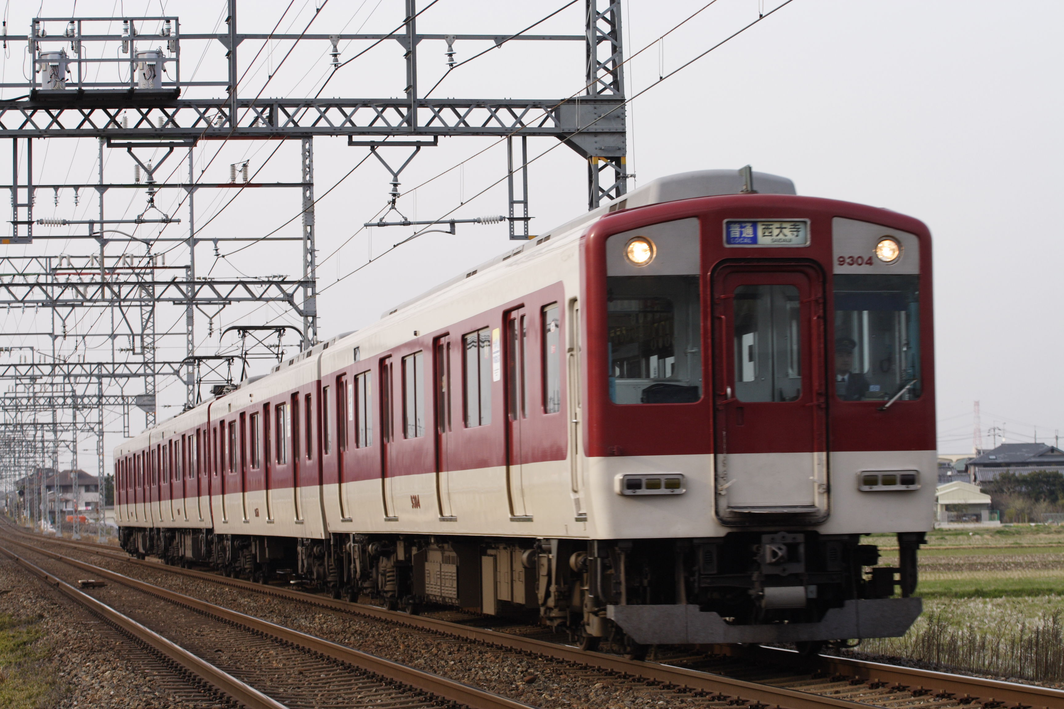 近畿日本鉄道・9200系電車/series 9200 electric car of Kintetsu Corporation